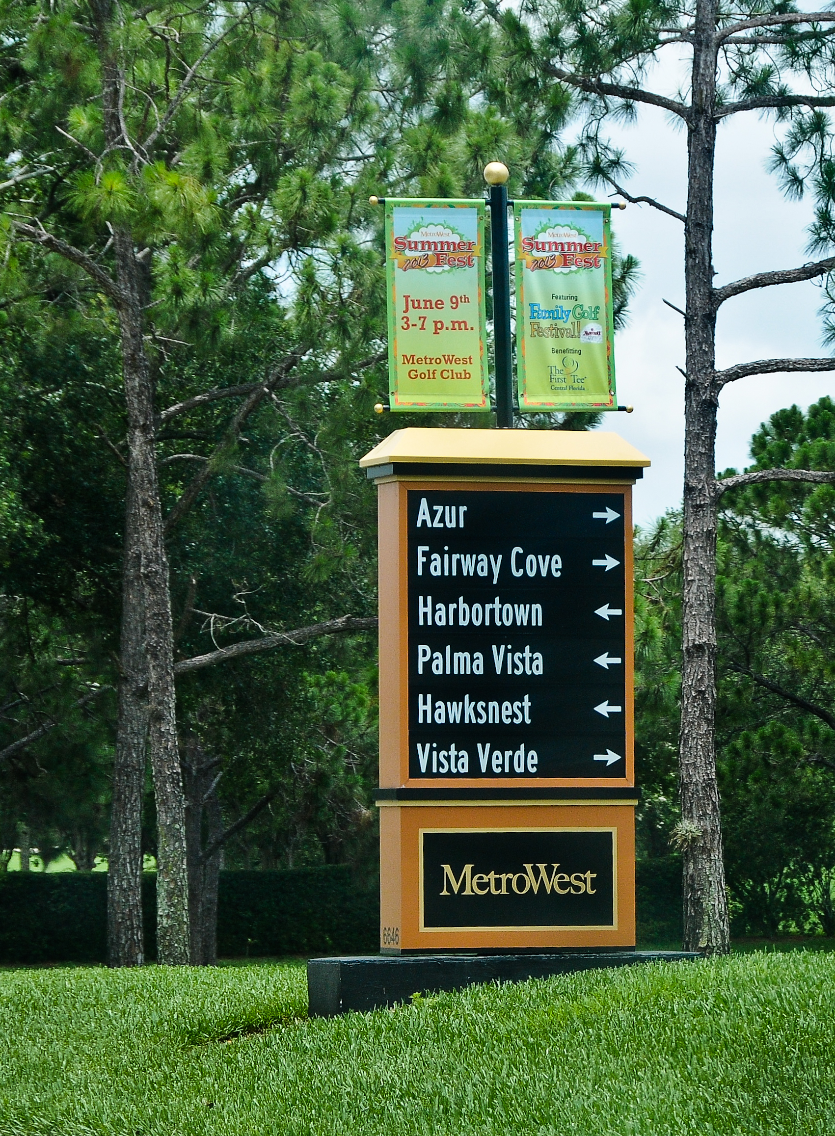 A road sign before S. Hiawassee Rd in MetroWest, Orlando, Florida.